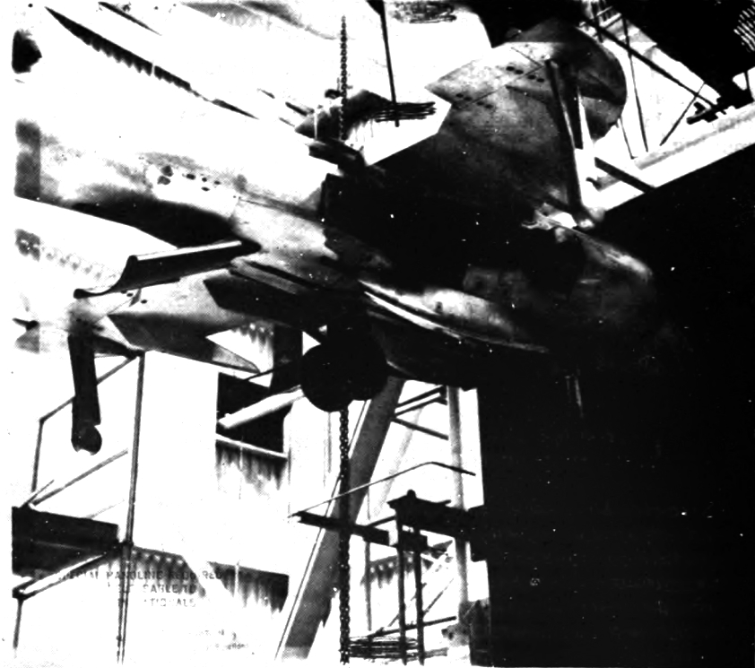 This is a photograph of a AV-8+ powered model taken at the McDonnell Douglas facility at St. Louis. This is a unique model which permits us to examine the wing, nozzle, and fuselage relationships which are critical in an aircraft which uses a vectored-thrust propulsion system.